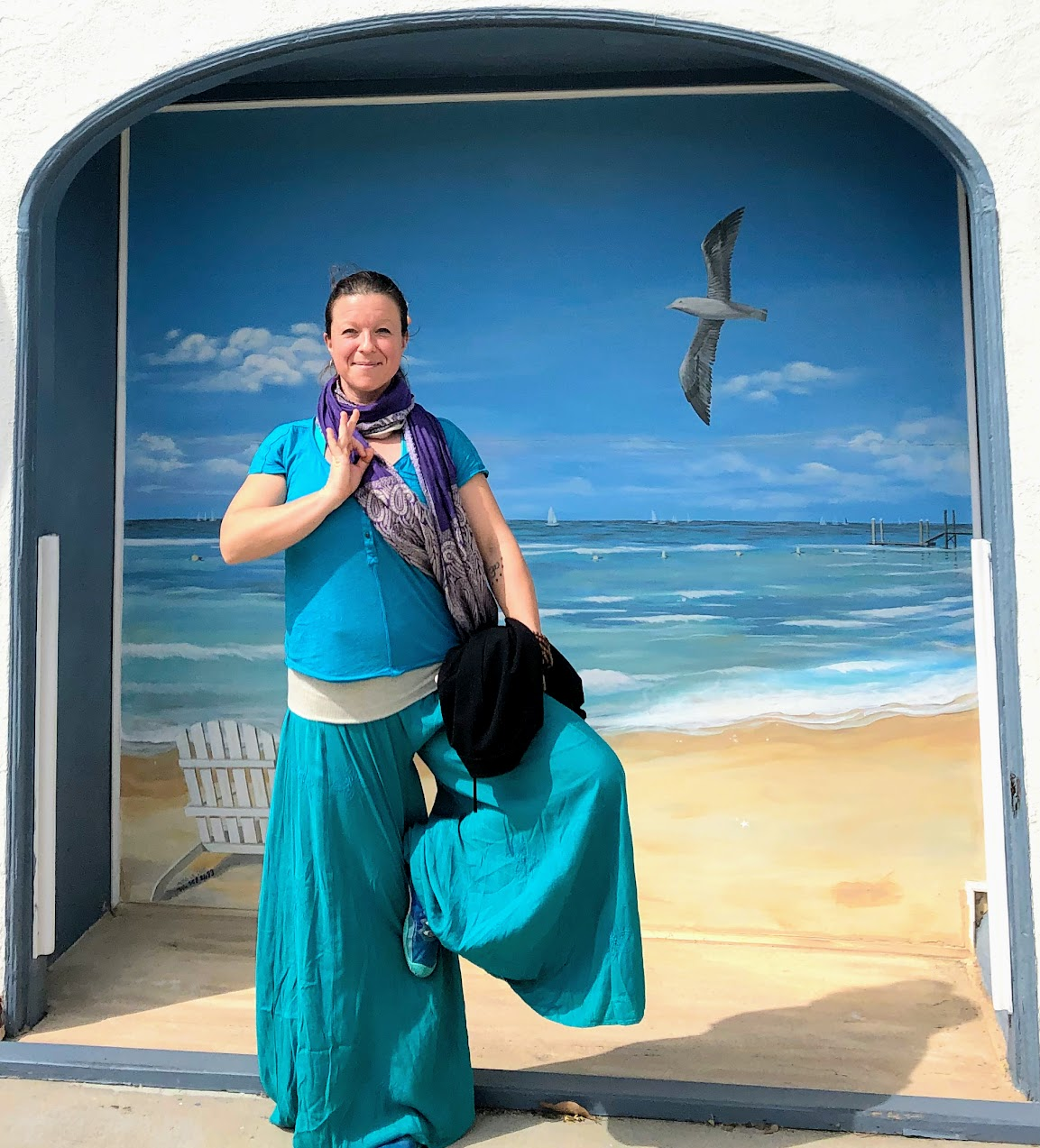 This is a photo of Birgit Penzenstadler